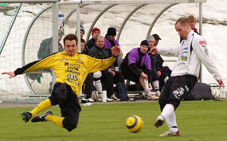 Miikka Turunen of KuPS making a slide tackle on Kings Kuopio player. Training game KuPS - Kings Kuopio at Magnum Areena, Kuopio.